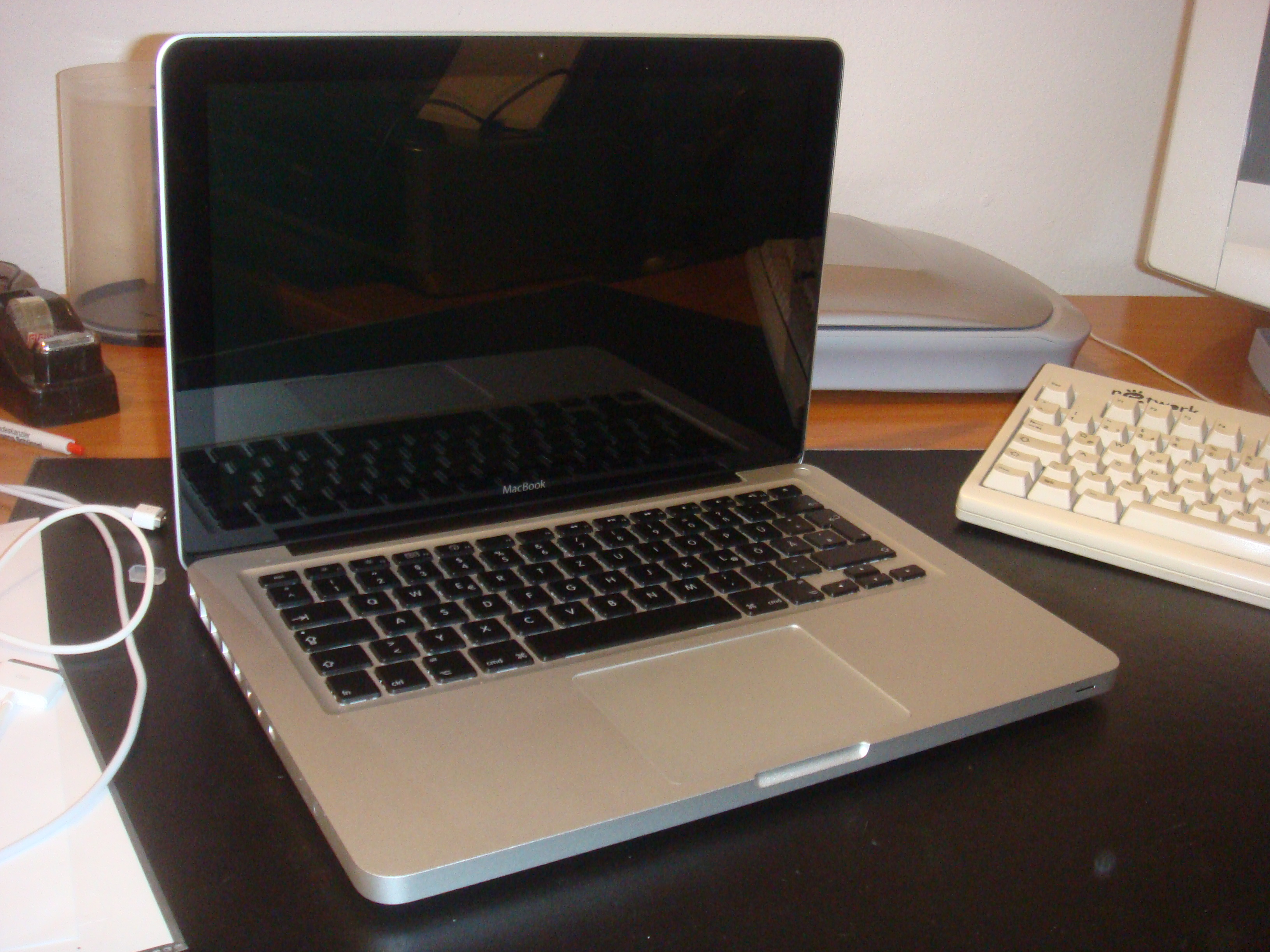 The new 2008 13.3" Aluminium MacBook with 2.0 GHz and 2GB Ram